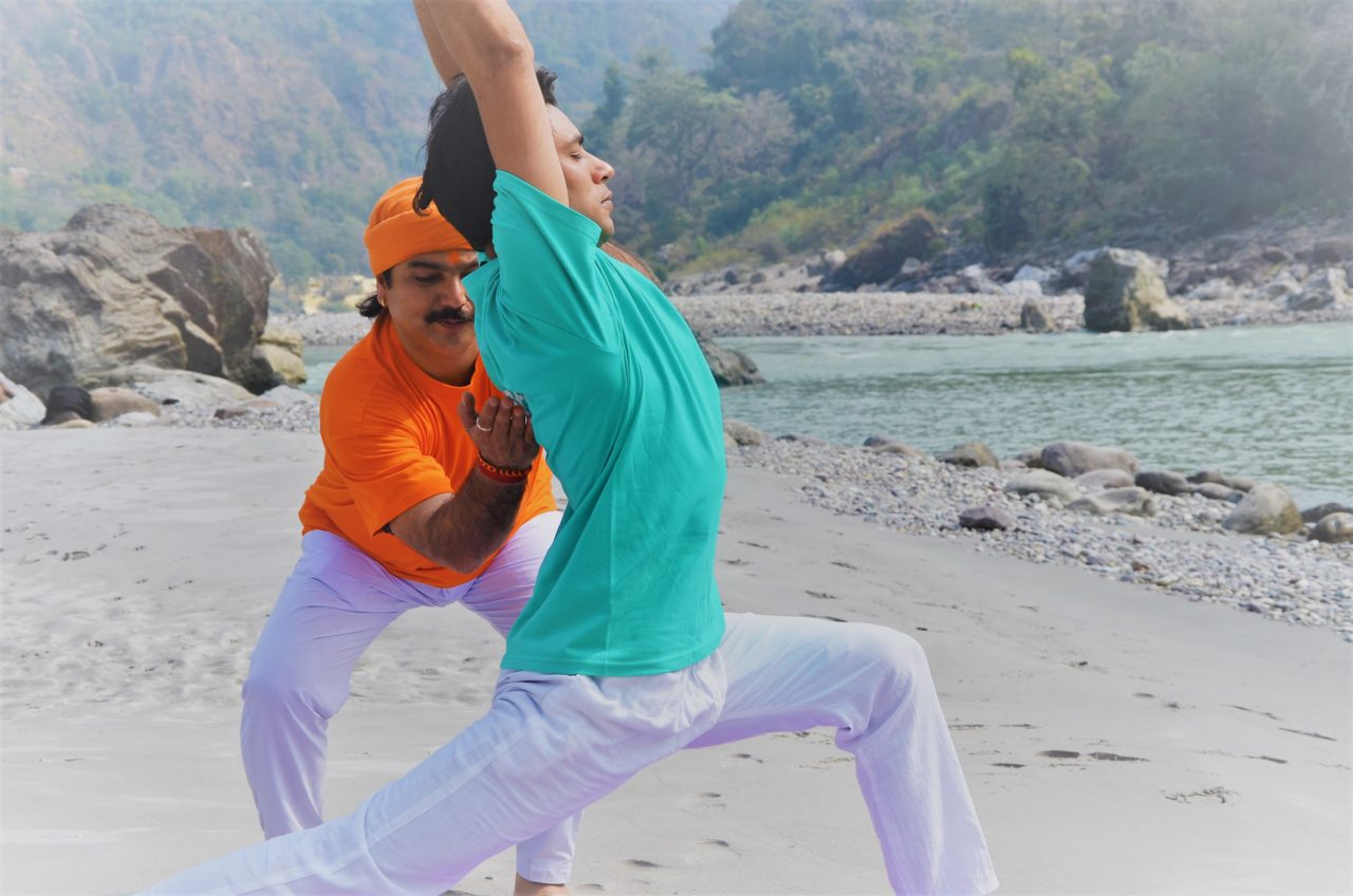 That’s way yoga therapy in form of retreat in small group is a perfect support to chronic disease or in postoperative phase.Yoga Therapy teacher training course gives exact knowledge in theory and practice how to use known tools asana, pranayama, meditation, mantra, yoga philosophy, vedic astrology, vastu shastra by concrete person with particular health issue.